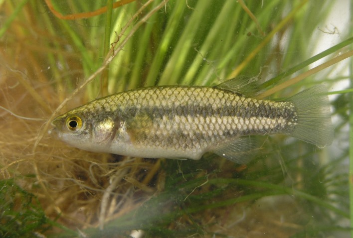 Crenichthys baileyi moapae: As the most prevalent fish on the Moapa Valley National Wildlife Refuge it is easy to spot a White River spring fish on the refuge. Spring fish feed on algae and other organisms floating in the water, but they also pick food off of rocks and sticks.